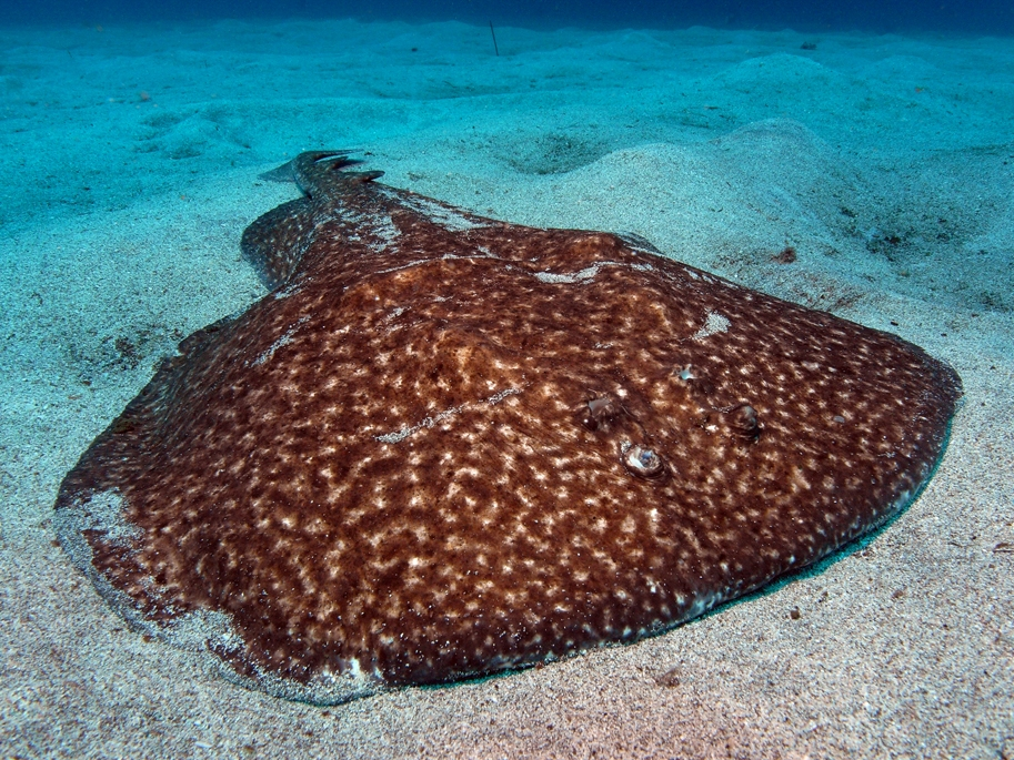 Torpedo marmorata - Spotted torpedo / Torpedo (Tembladera) / Raie torpille, Tenerife.